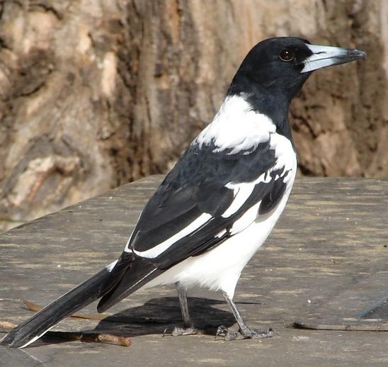 Butcherbirds have a superb voice and the Pied butcherbird is my favourite Australian songbird.